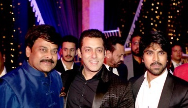 Chiranjeevi with Salman Khan and his son Ram Charan at his 60th Birthday Bash